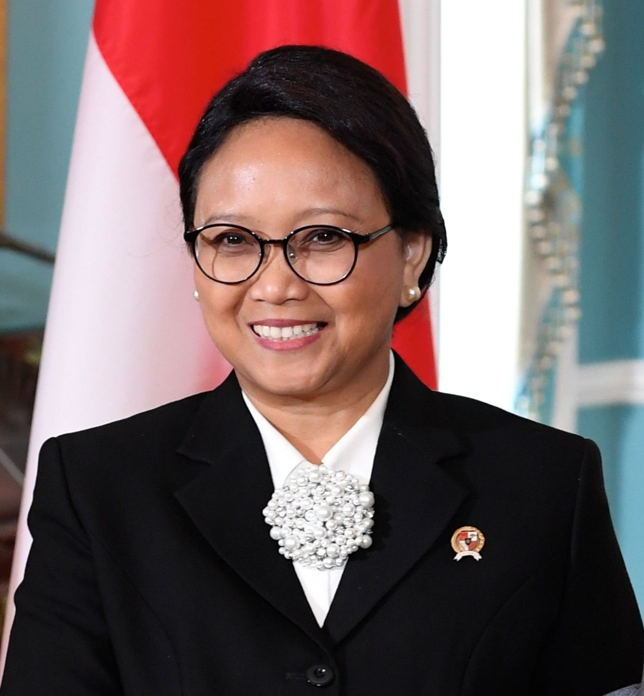 U.S. Secretary of State Rex Tillerson shakes hands with Indonesian Foreign Minister Retno Marsudi before their bilateral meeting at the U.S. Department of State in Washington, D.C., on May 4, 2017. [State Department photo/ Public Domain]